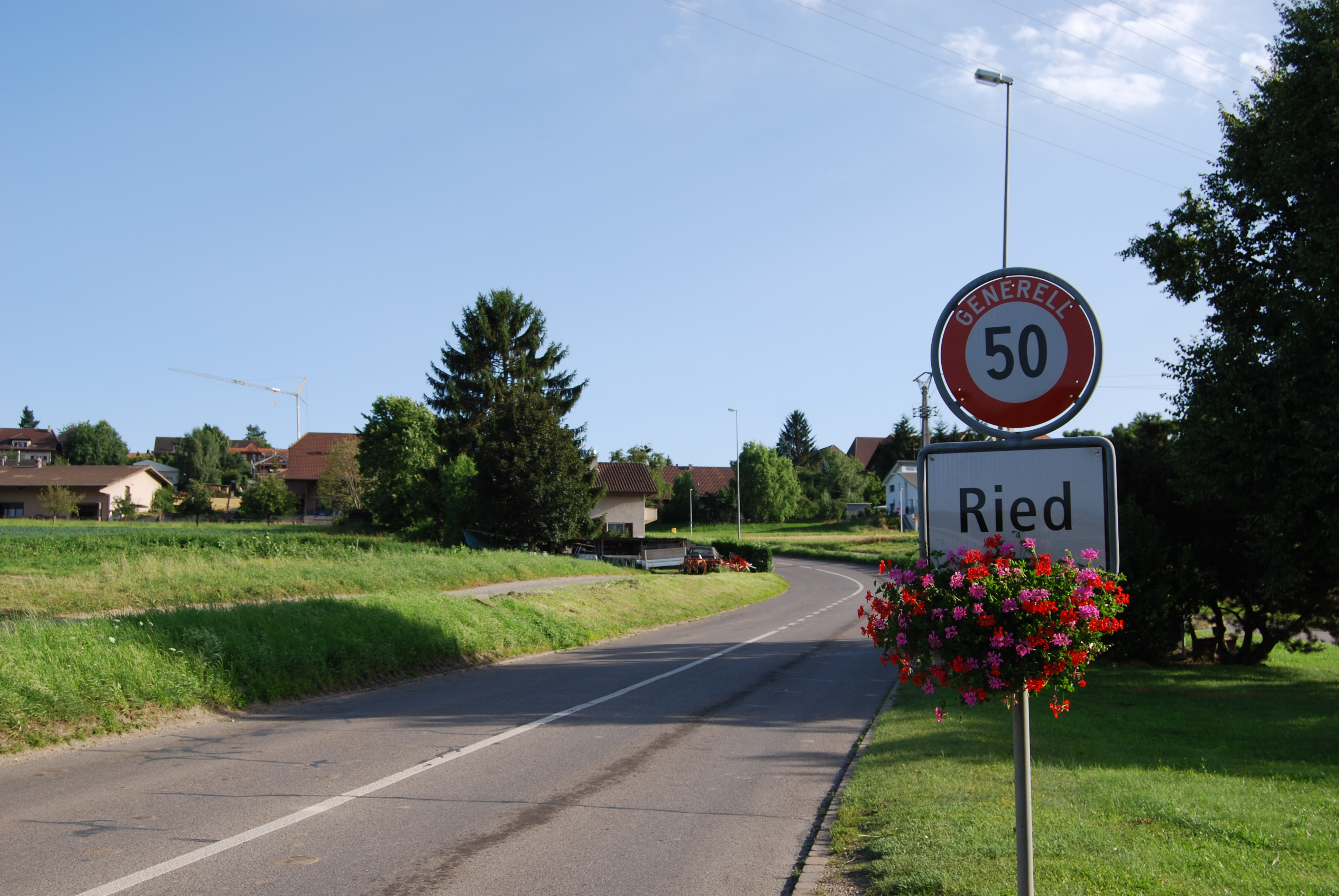 Ried bei Kerzers, canton of Fribourg, SwitzerlandEsperanto: Ried ĉe Kerzers, Kantono Friburgo, Svislando